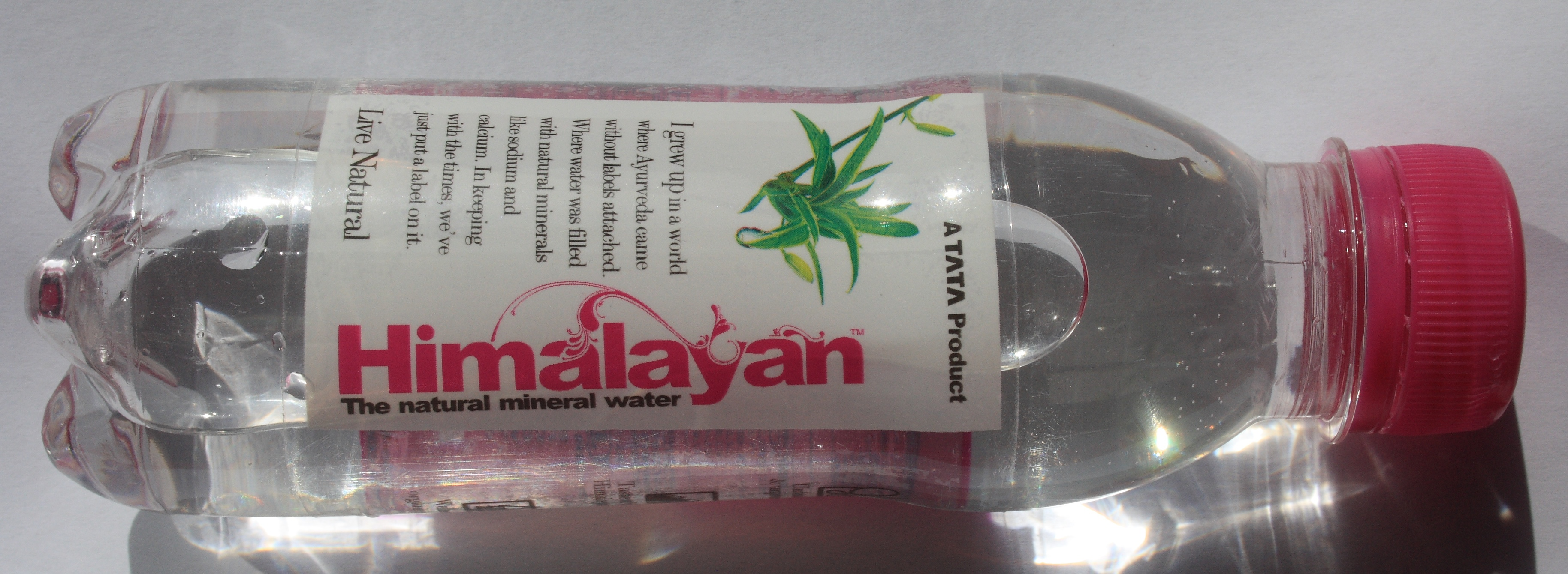 A bottle of Himalayan Mineral Water, a company owned by TATA.